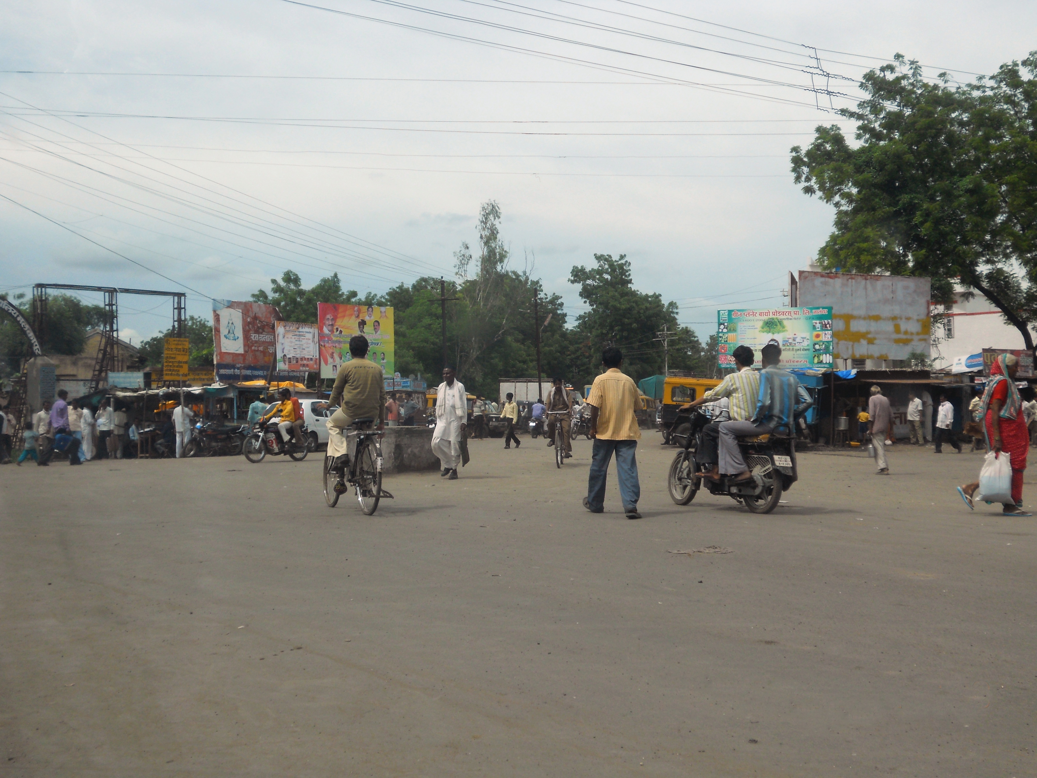 malkapur